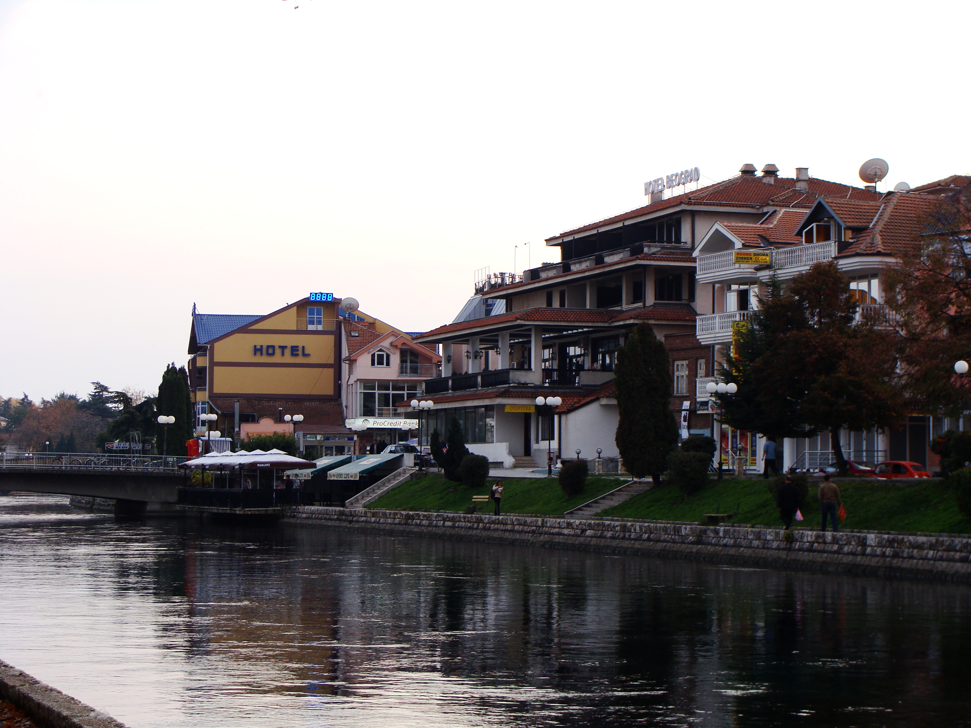 Struga, a town by the Ohrid lake